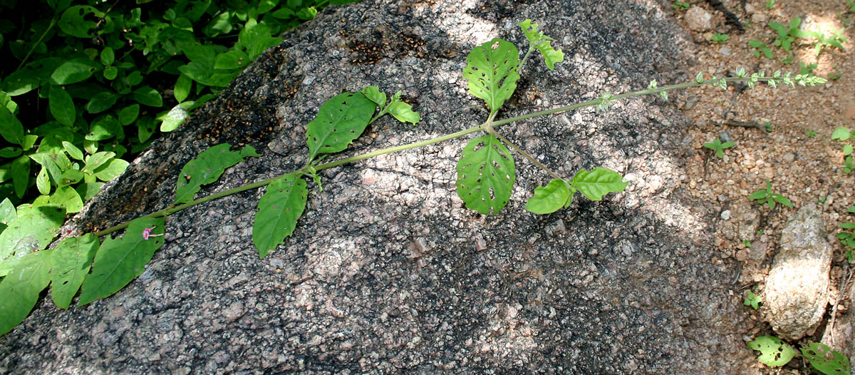 Pupalia lappacea (Syn. Achyranthes atropurpurea, A. lappacea, Desmochaeta atropurpurea, Desmochaeta flavescens, P. atropurpurea, P. lappacea var. velutina)- Forest Burr, Creeping Cock's Comb • Hindi: नागदामिनी Nagadaminee, Undho bhurat, चिर्चिट्टा Chirchitta • Tamil: adai-otti, perunkotiveli, napikai, valiyakkotiveli • Malayalam: pu-pal-valli, wellia-codiveli • Telugu: erra utthareni, thella utthareni, yerri chithramoolam • Kannada: antupurale gida, naagadamani • Konkani: Sitya kurdi- in Hyderabad, India.